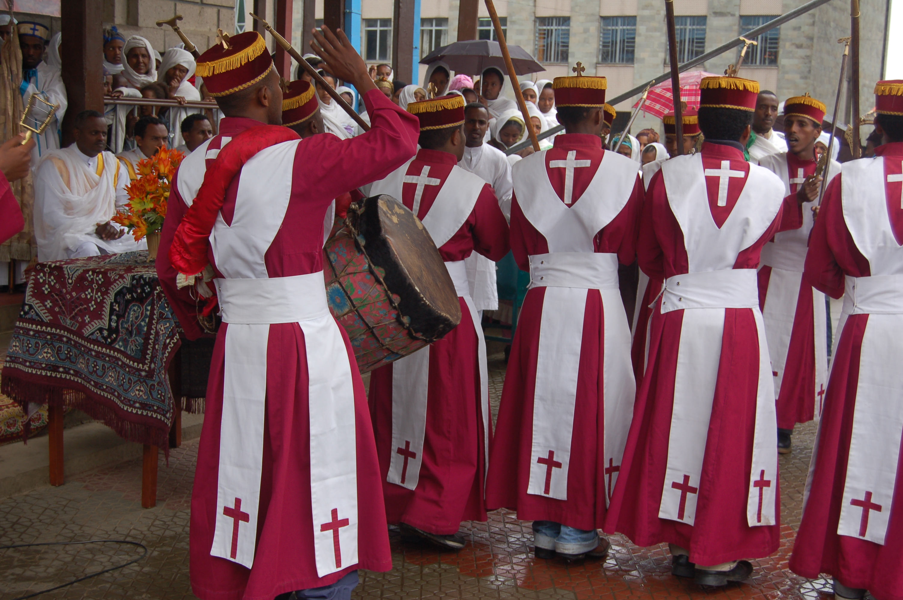 cantos e danzas nunha boda cristiá etíope